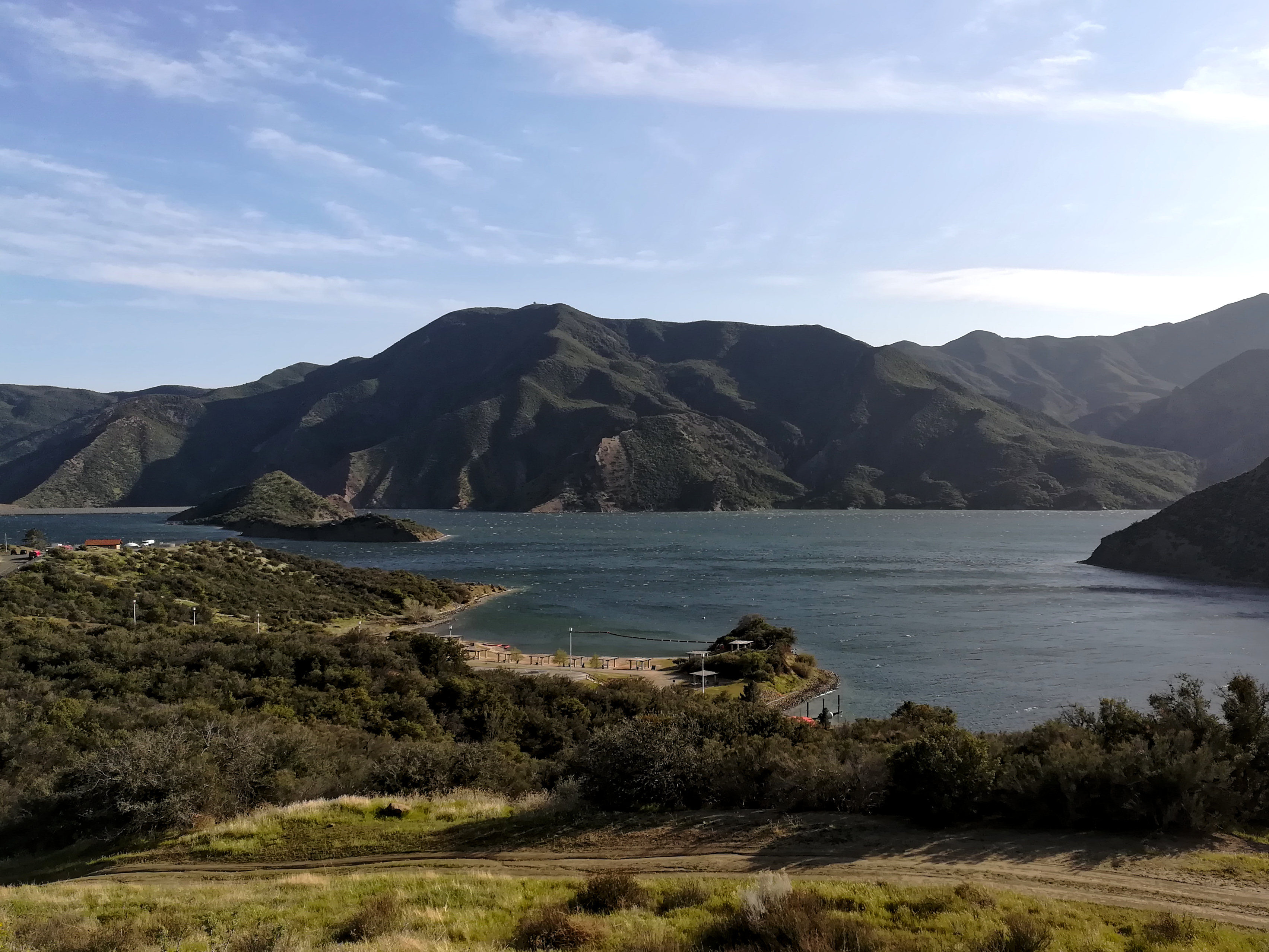 Pyramid Lake (California)